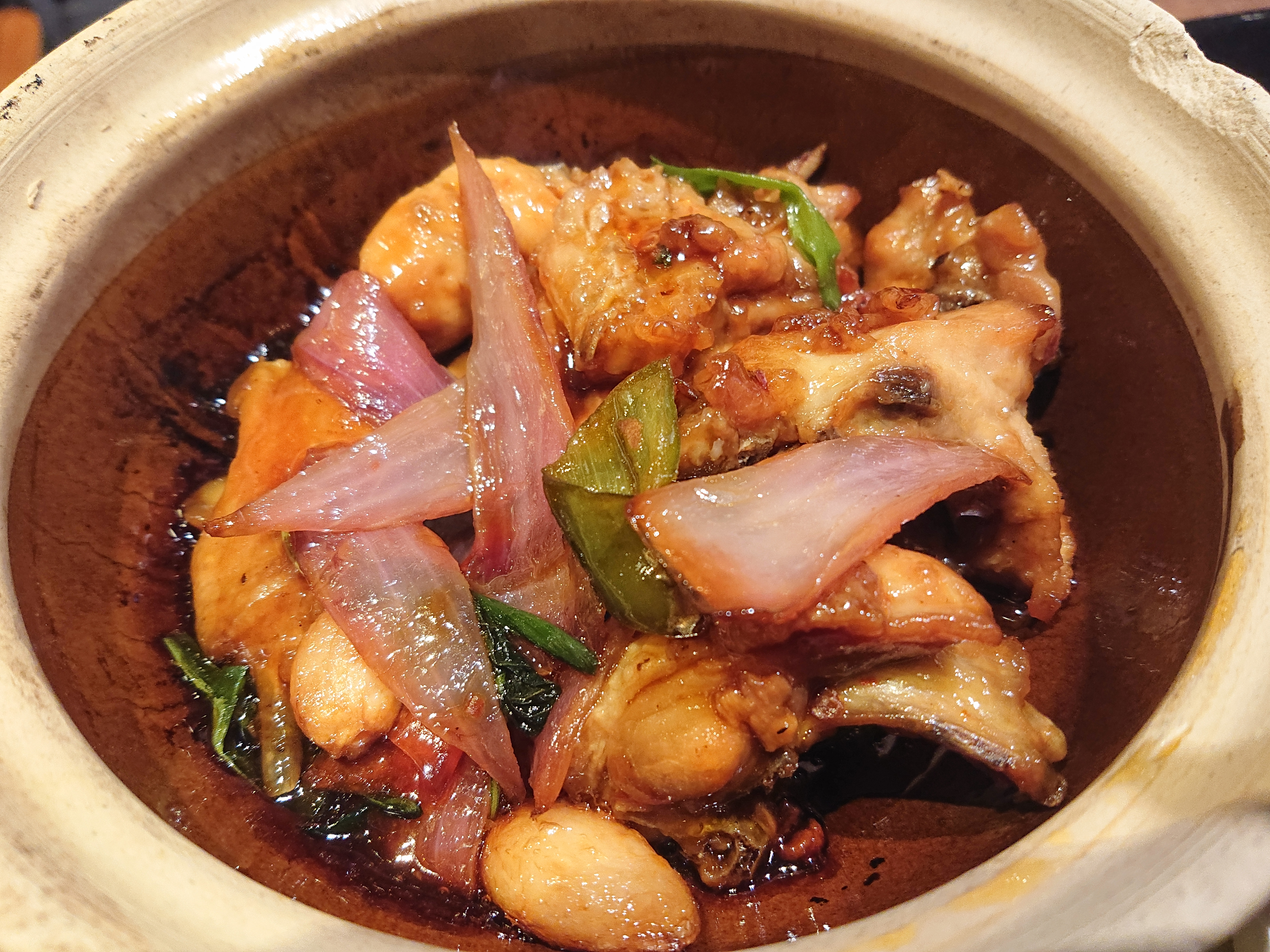 Three Cup Chicken in Clay Pot